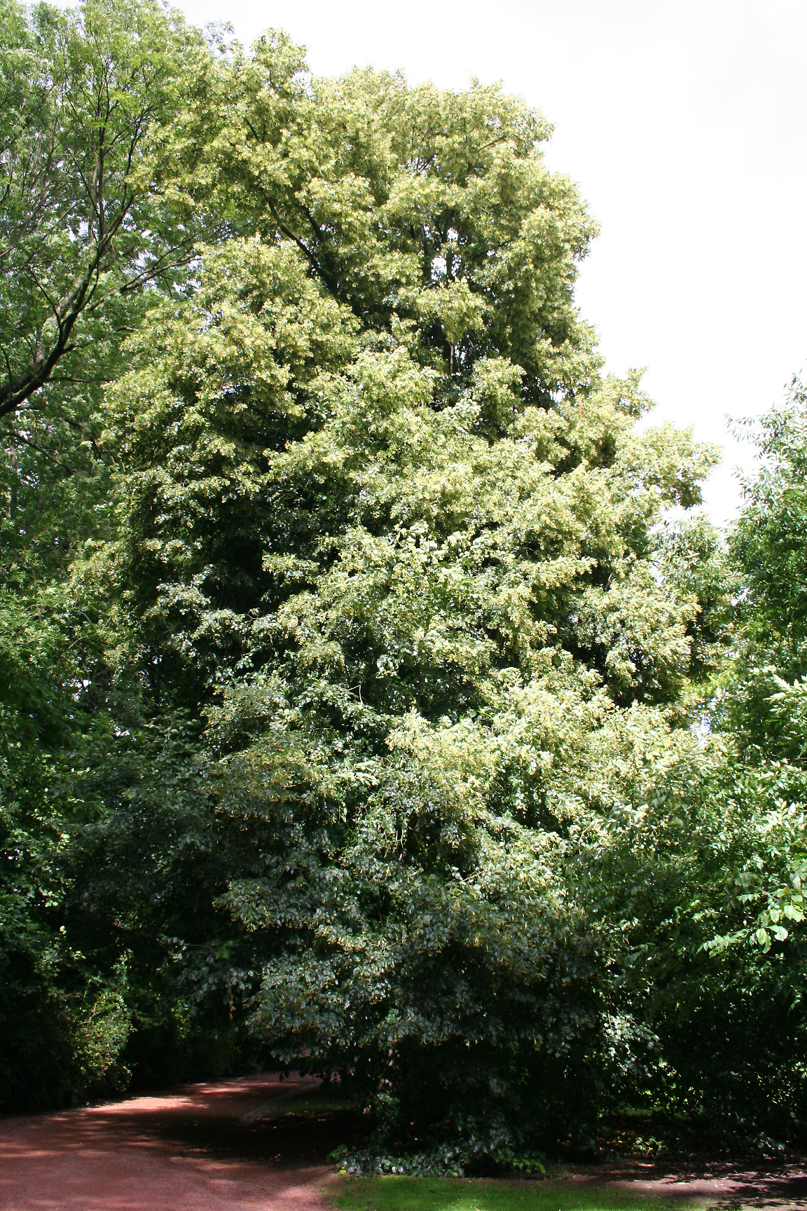 Crimean Lime